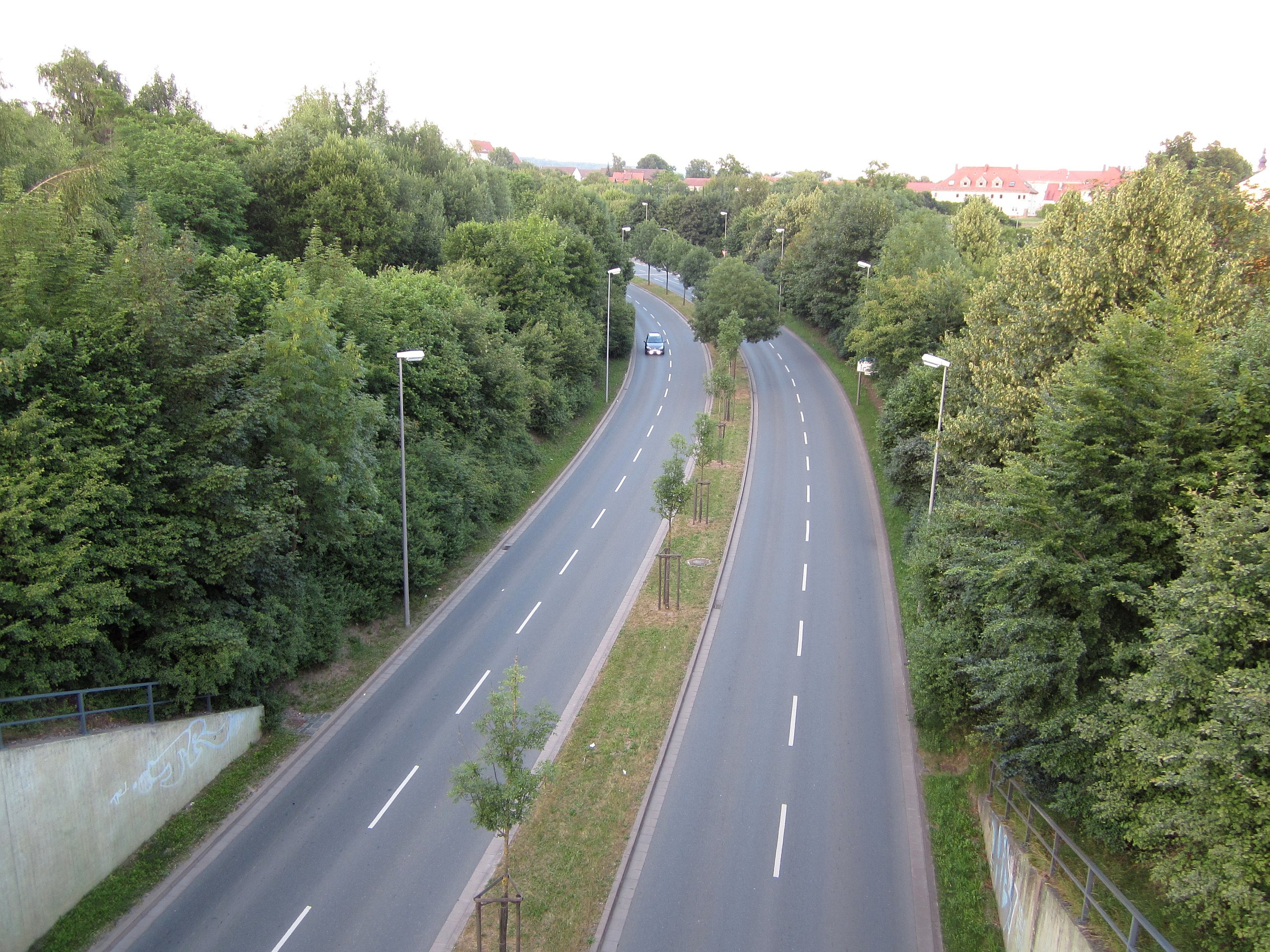 Hofer Straße in Bayreuth